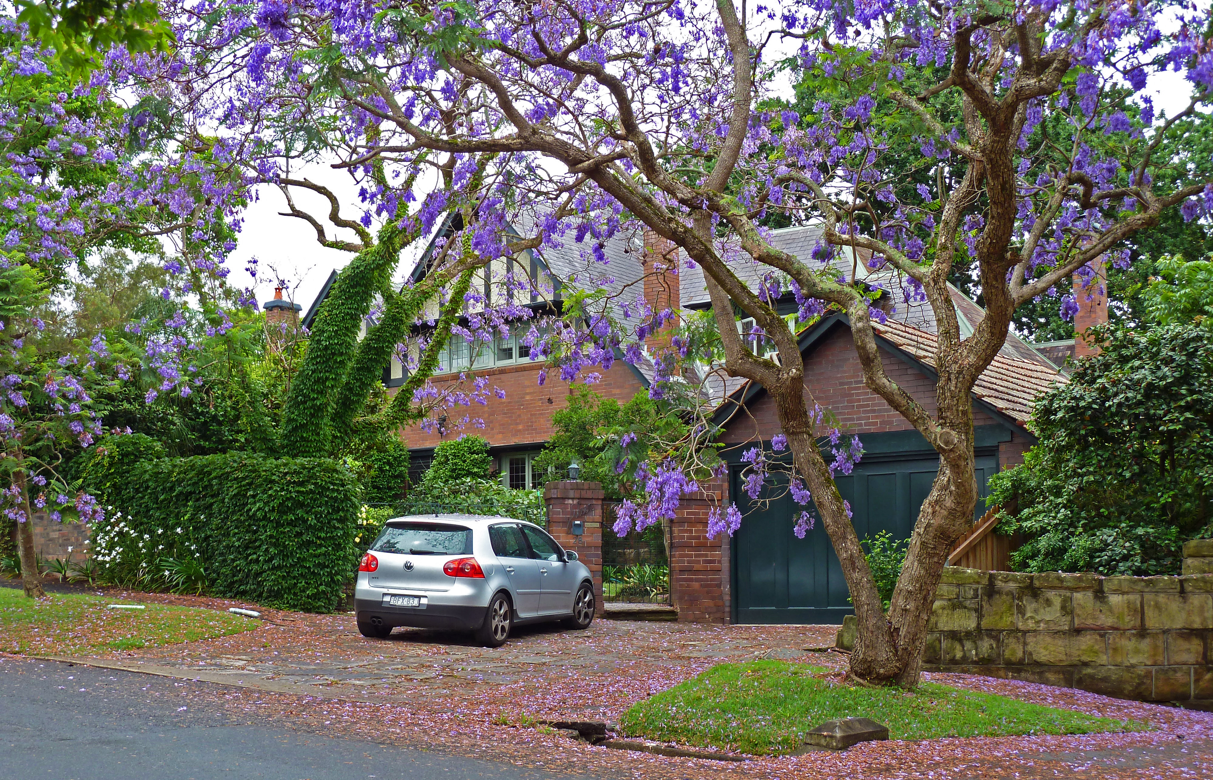 26 Springdale Road, Killara, New South Wales, Australia.